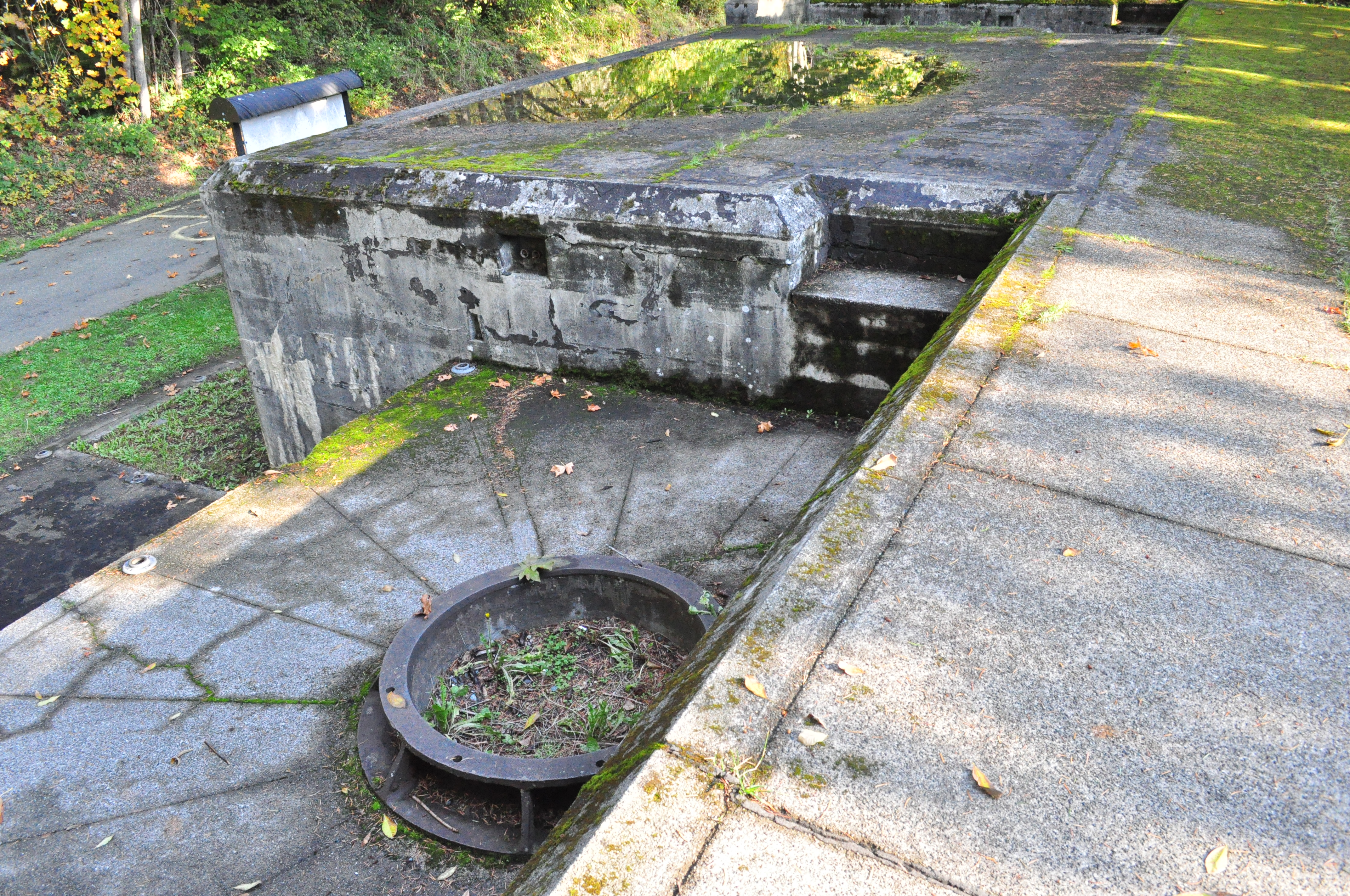 Battery Vinton, Fort Ward Park, Bainbridge Island, Washington.